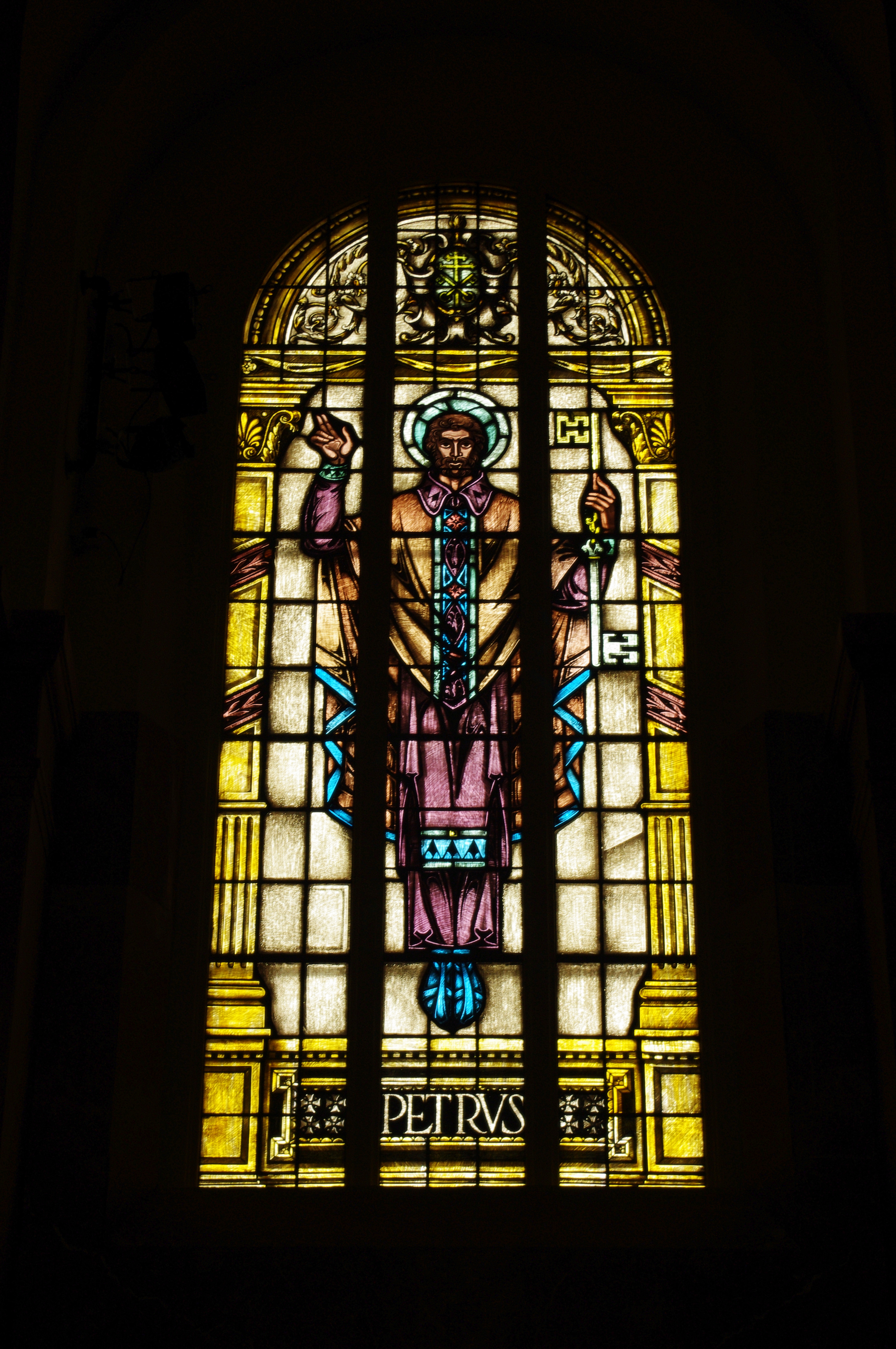 Saints Peter & Paul Cathedral (Indianapolis, Indiana), interior, sanctuary, stained glass, St. Peter